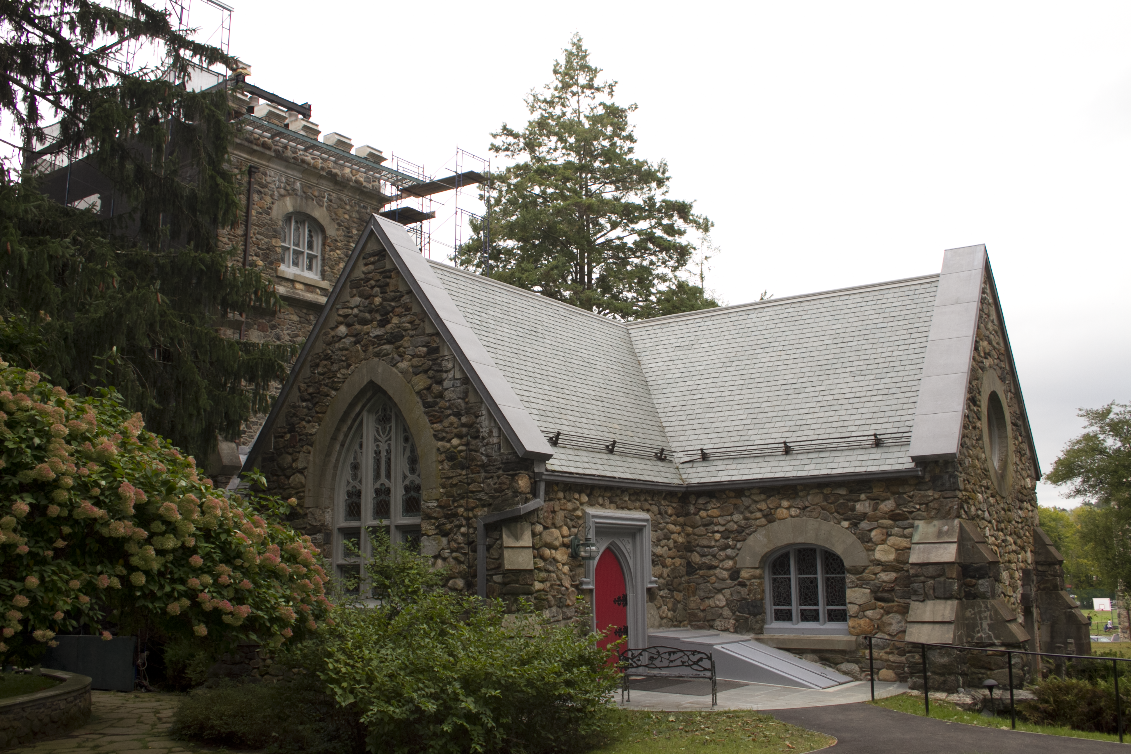 Church of Saint Mary the Virgin and Greeley Grove The rear view of the church